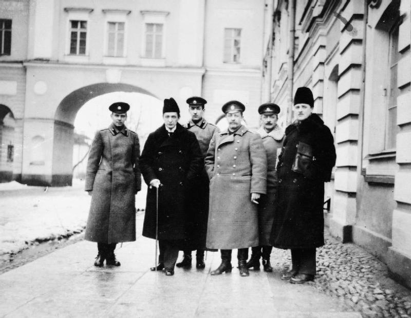 Tsarskoye Selo (Russia), Members of the Provisional Government, General Kornilov and the head of the Provisional Government, Alexander Kerensky with his guards in Tsarskoye Selo after they arrested the Empress Alexandra, in March 1917.